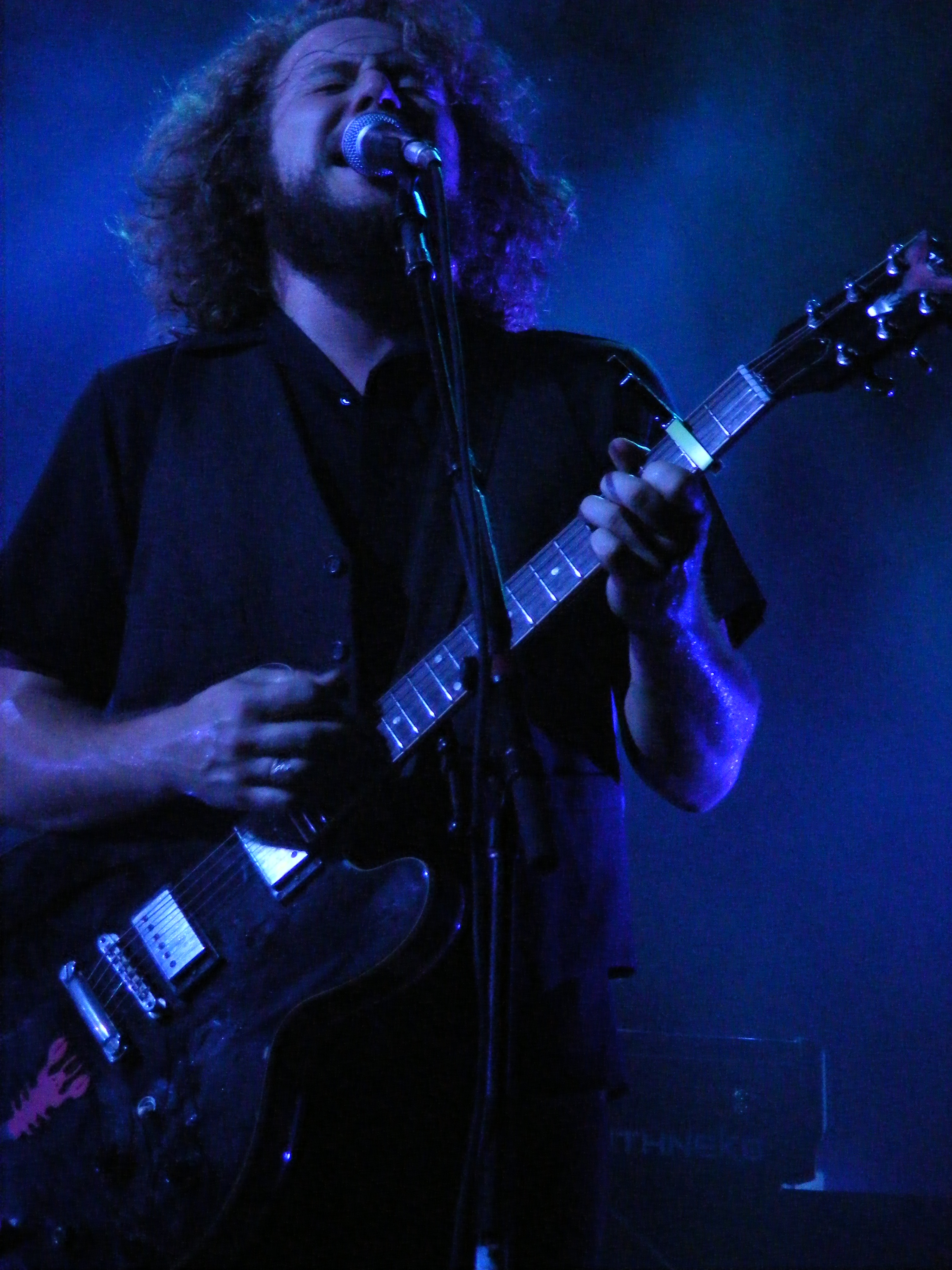 Jim James of My Morning Jacket performing at San Diego State University's Open Air Theatre on September 25th during their 2008 U.S. tour.